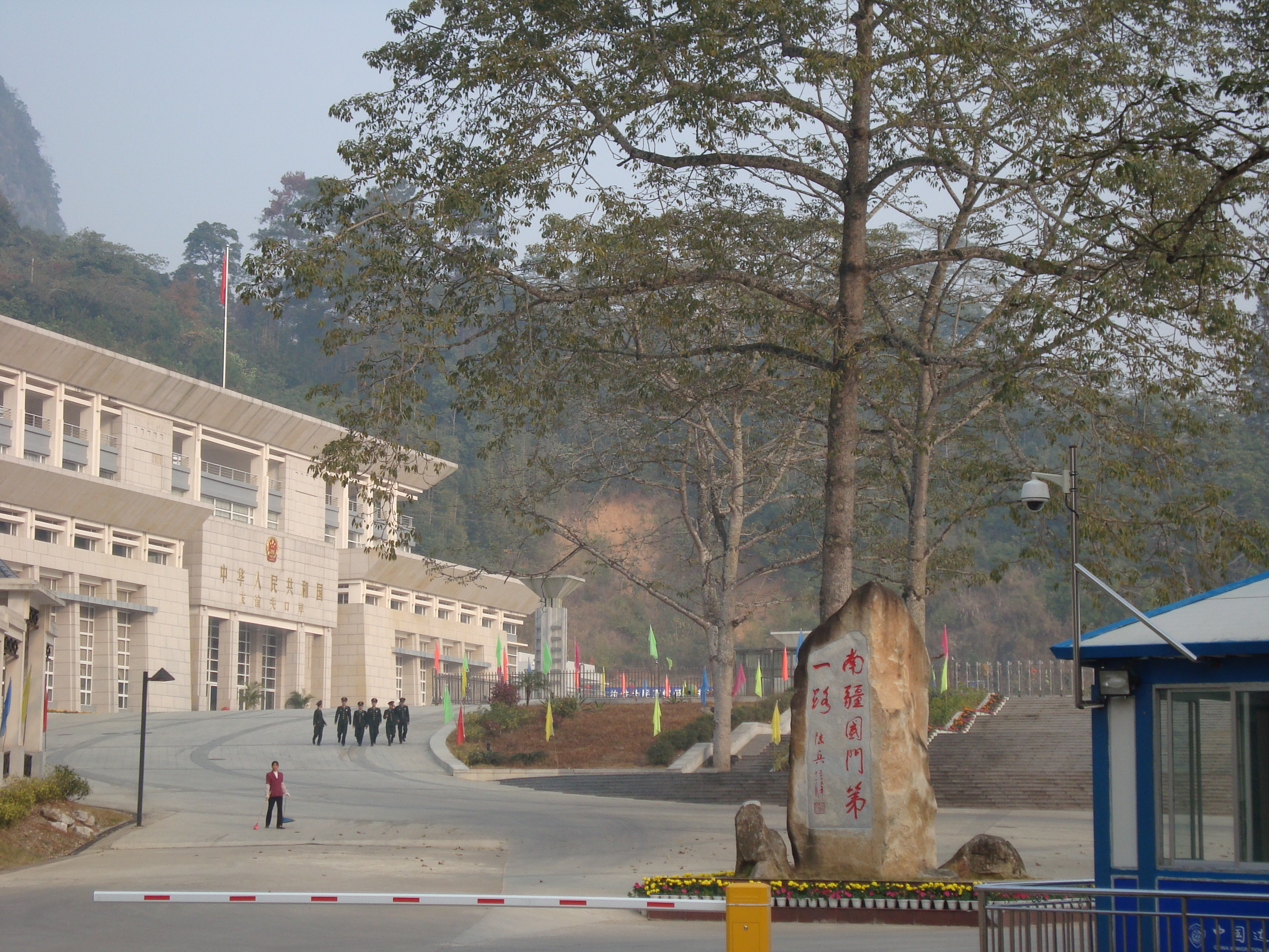 Kilometre zero of National Route 1A in Vietnam, at the Youyiguan (Friendship Pass) control point on the China–Vietnam border. Looking from Vietnam territory into People's Republic of China territory. The characters on the building to the left read "People's Republic of China Youyiguan Control Point."